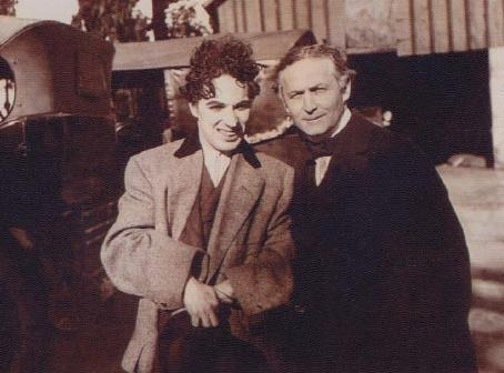 Charlie Chaplin together with Harry Houdini in the United States in November 1919 at the Lasky studio's.